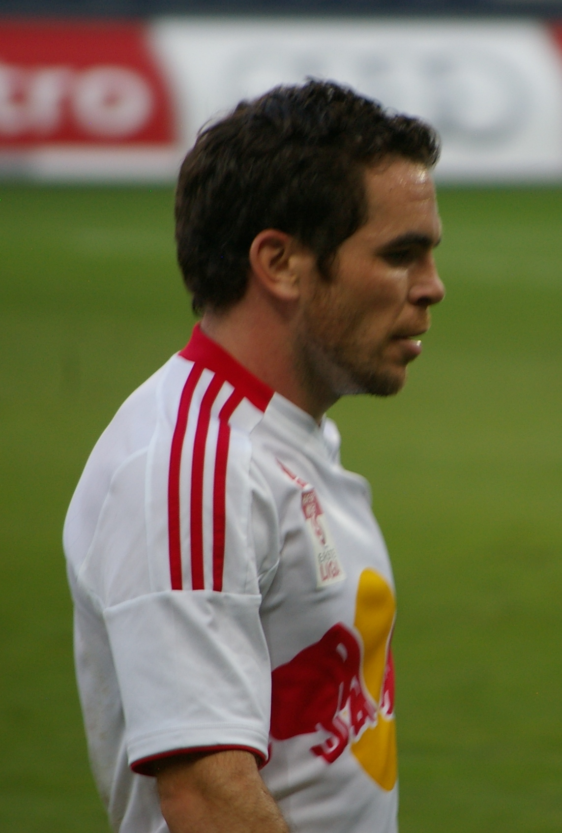 league match